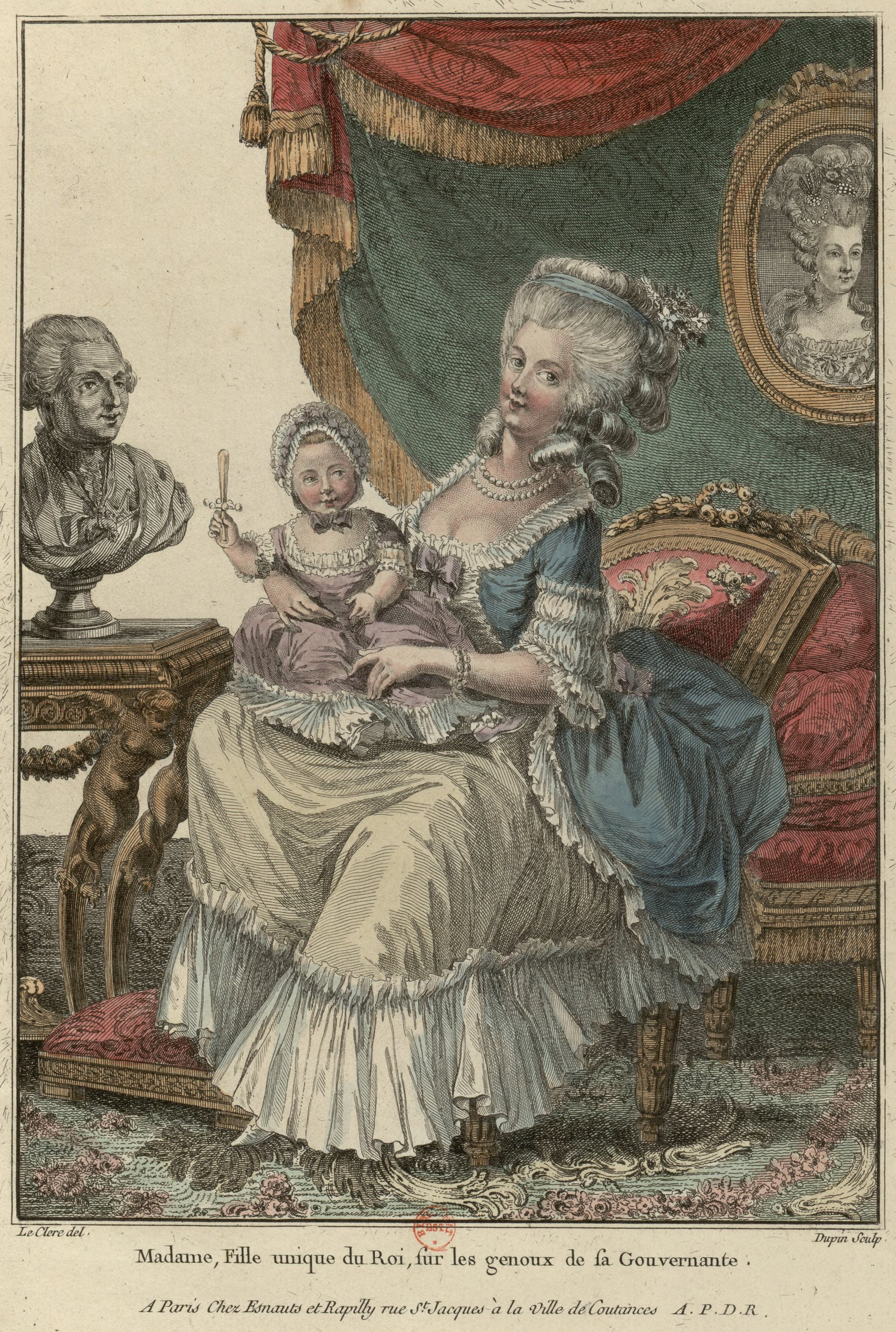 Marie Thérèse Charlotte of France and her governess